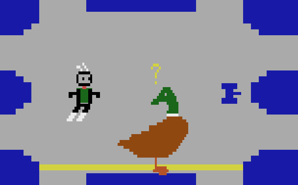 Screenshot of the Atari 2600 homebrew game Duck Attack! by Will Nicholes. The player (robot), a duck and a tank.